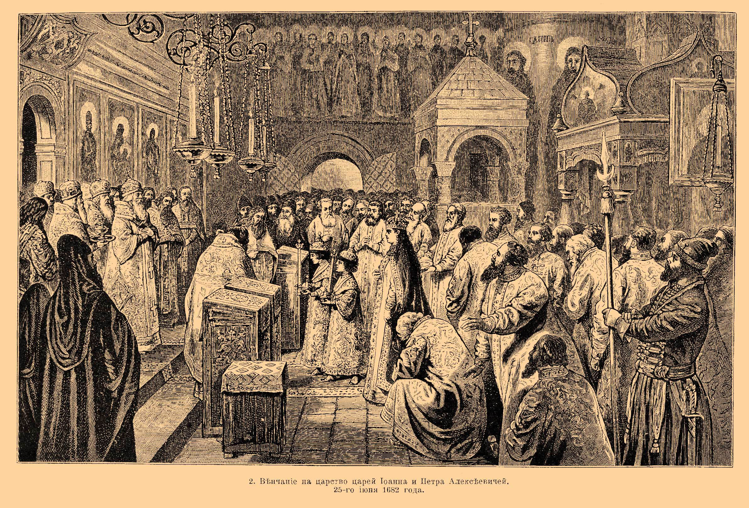 Illustration from Brockhaus and Efron Encyclopedic Dictionary (1890—1907)